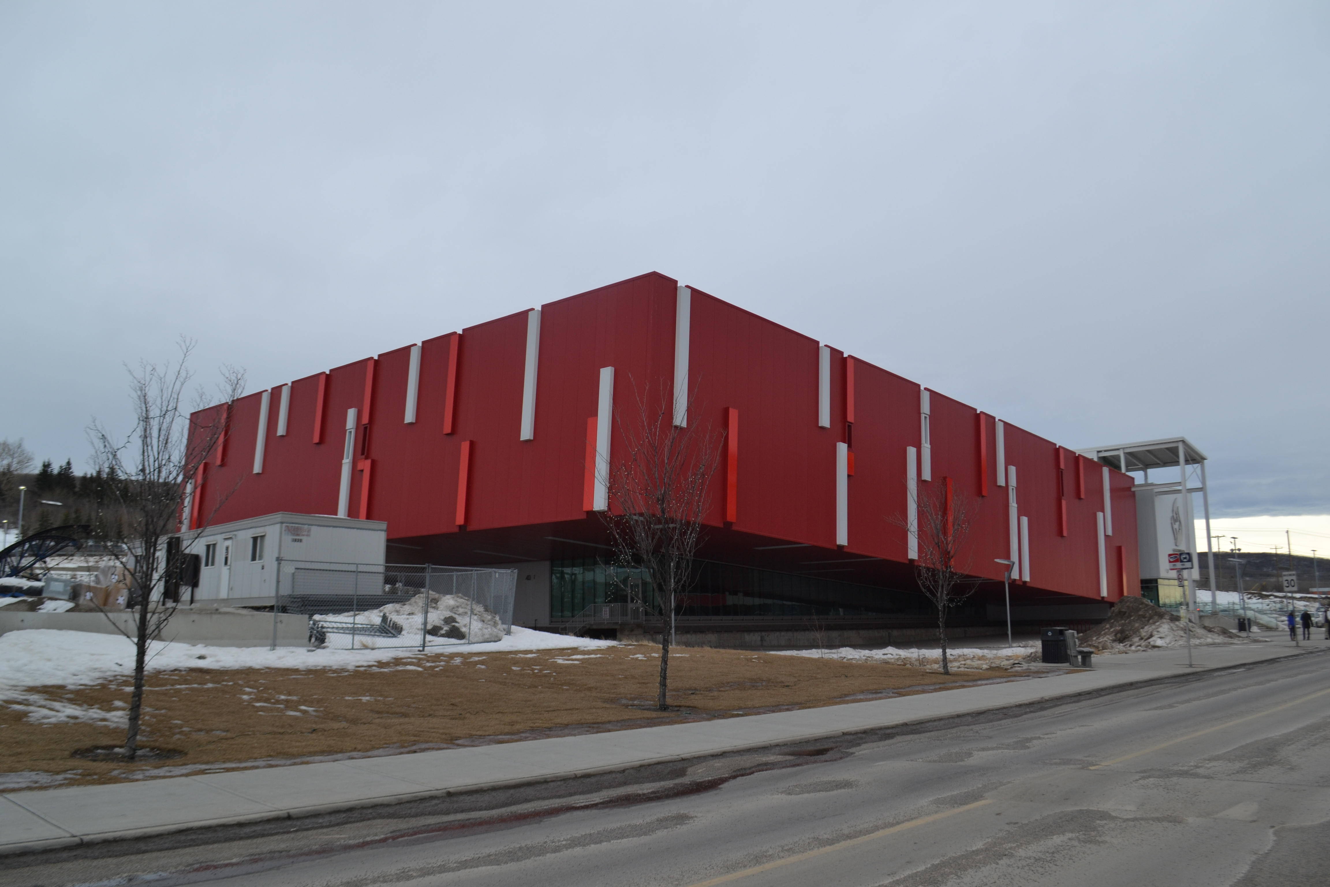 Canada's Sports Hall of Fame (1)